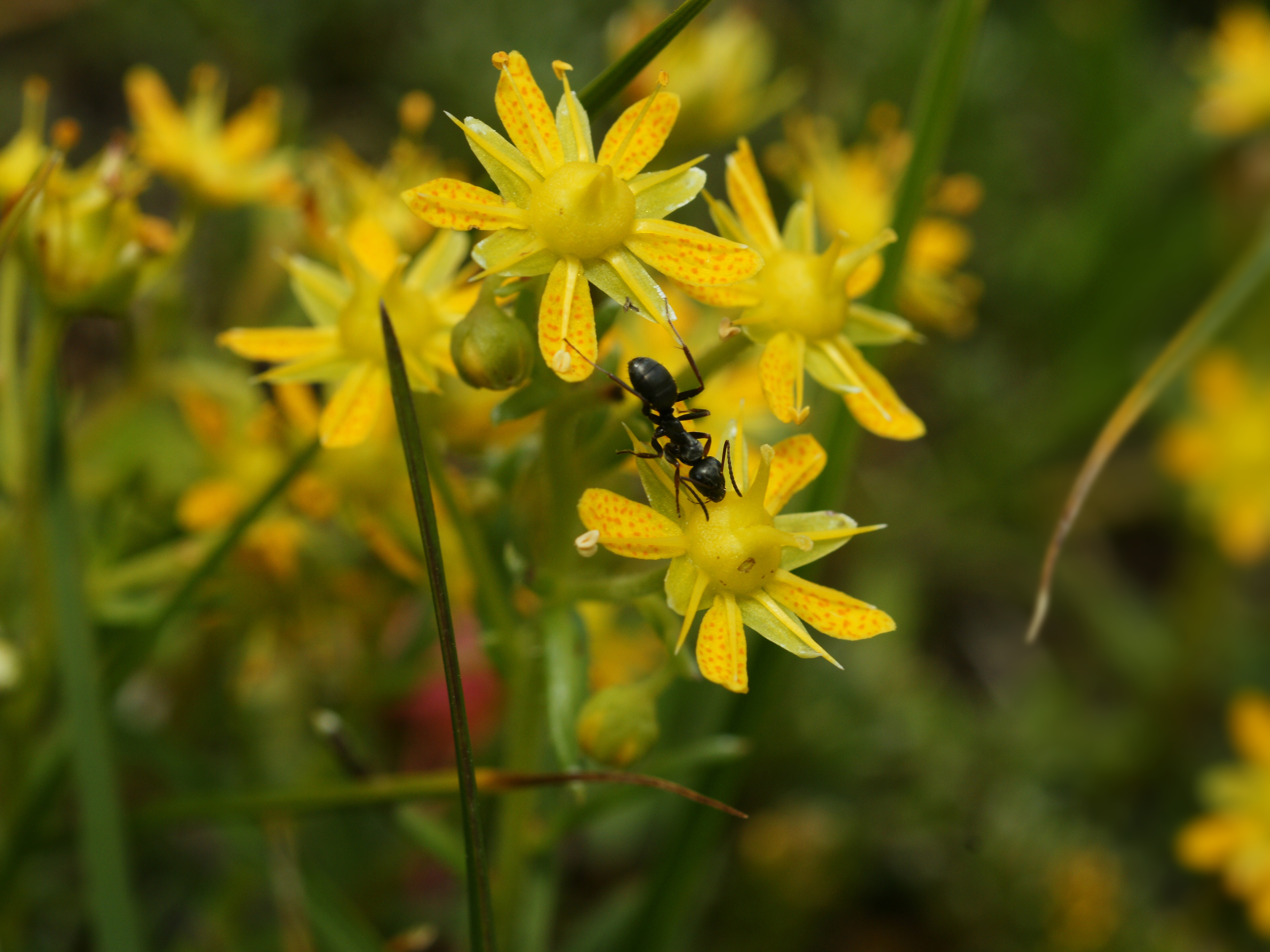 Yellow mountain saxifrage, at Längfluh, Saas Fee, Switzerland